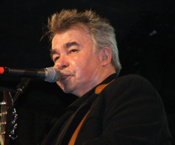 John Prine at MerleFest (2006). Photo by Ron Baker.